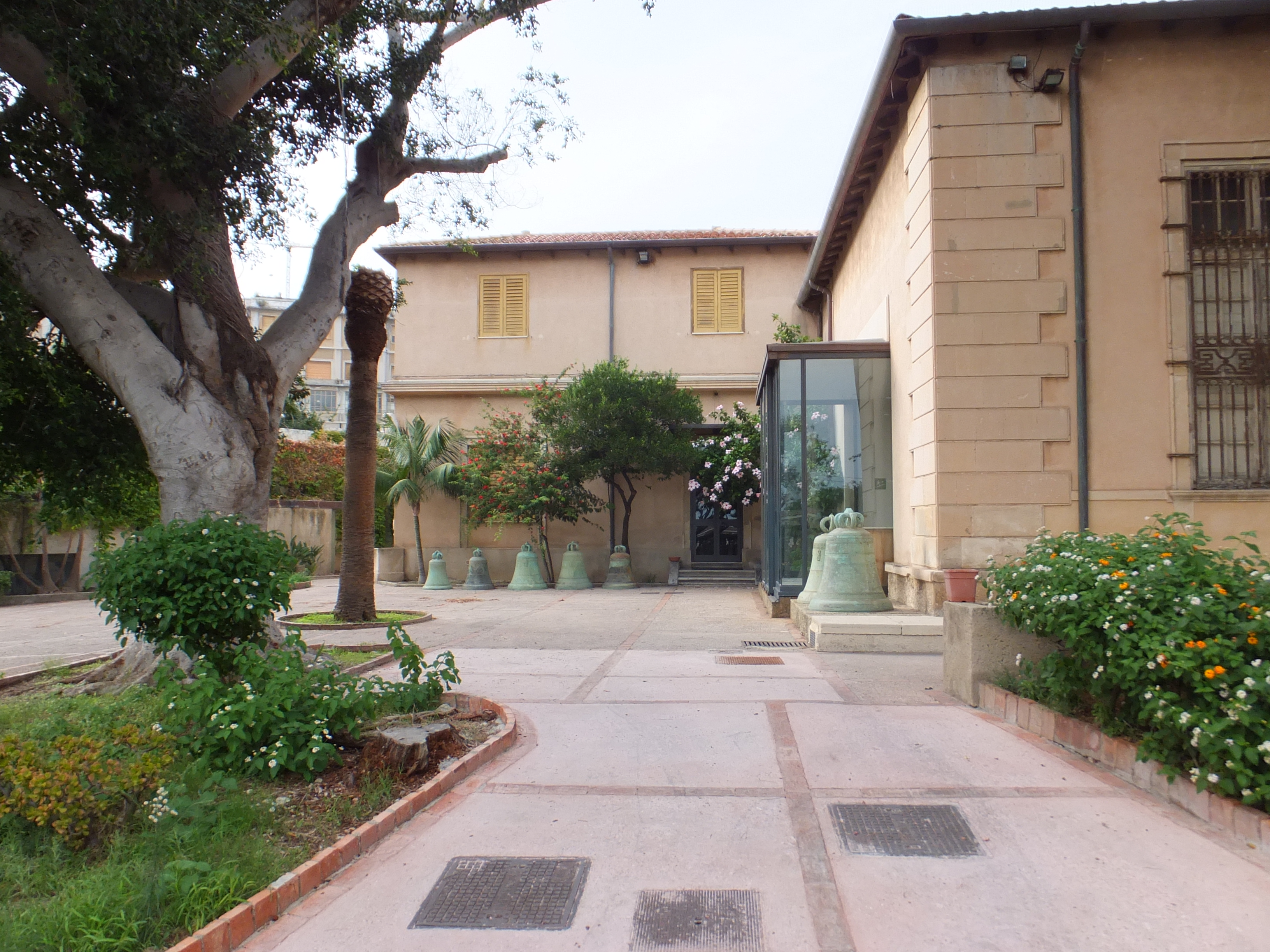 Museo di Regionale in Messina, Sicily which contain 2 works by Caravaggio. Painting of "Raising of Lazarus" and "Adoration of the Shepherds"